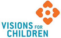 Visions for Children 2016 logo